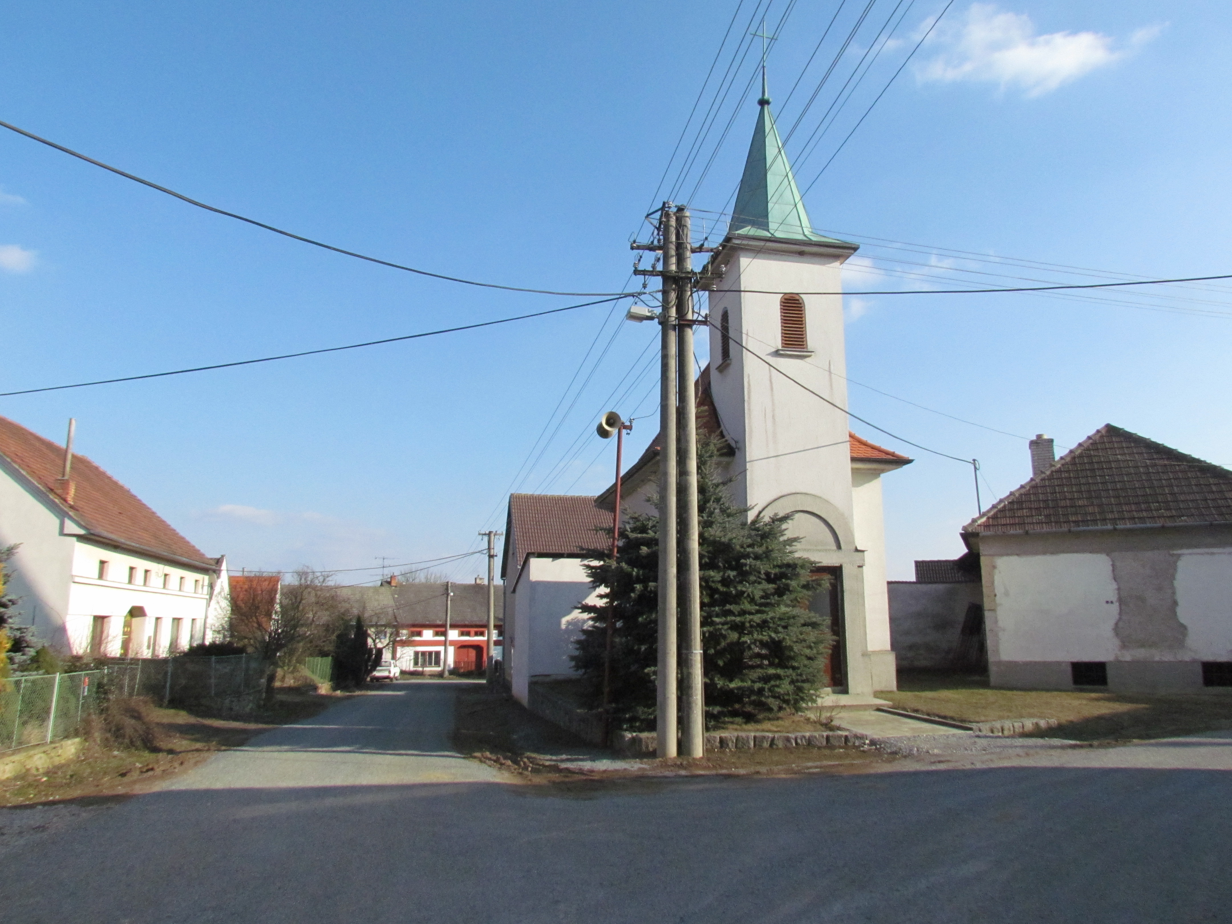 Center of Číměř, Třebíč District.